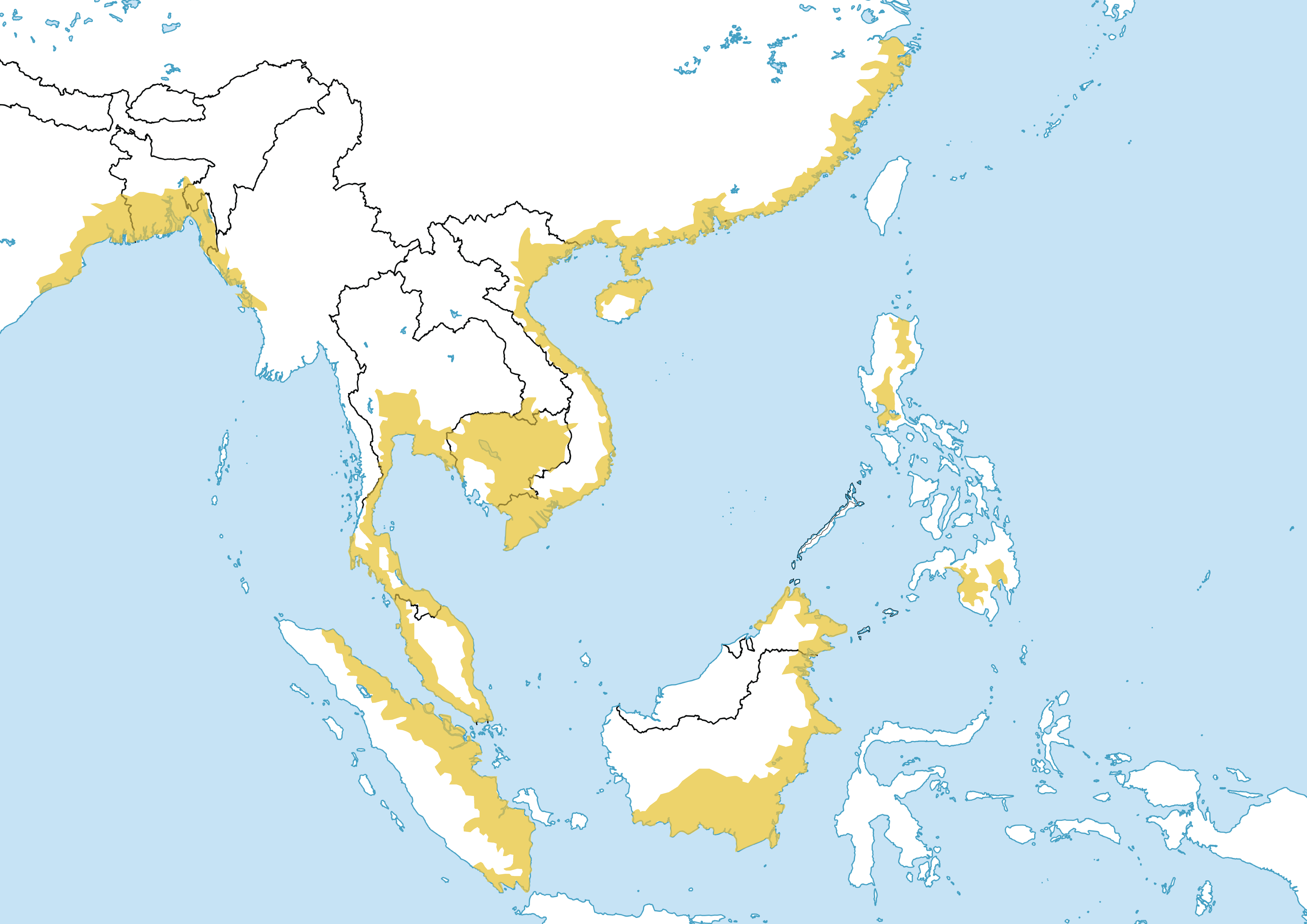 Geographic distribution of Asian Giant Softshell Turtle (Pelochelys cantorii). Source : IUCN Red List of Threatened Species [1]. This map is also used in Chamberlain, James R. (2016). Kra-Dai and the Proto-History of South China and Vietnam, p. 56. [2] as an evidence of the coastal origins of Be-Tai speaking peoples.